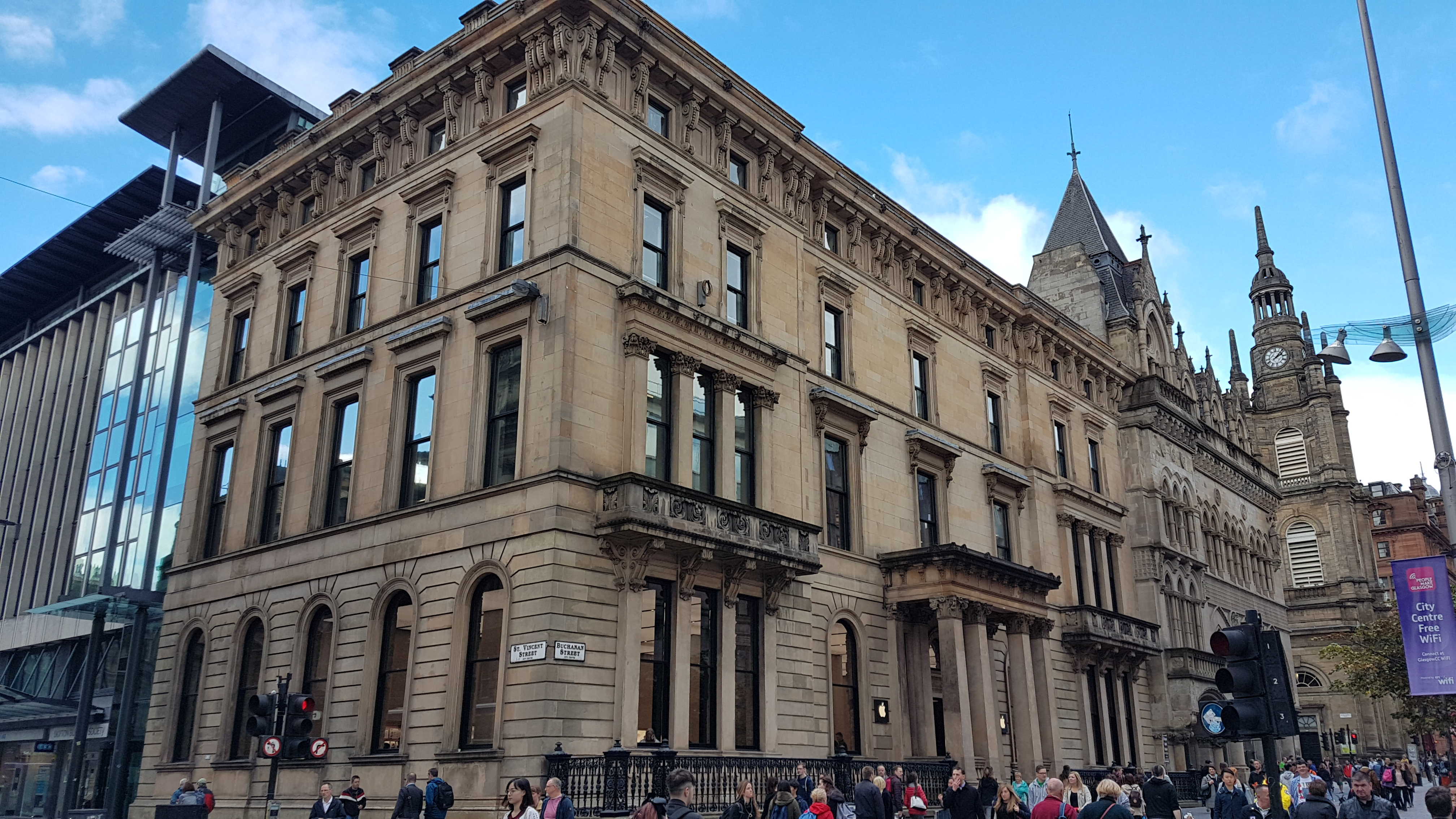 147 Buchanan Street, Western Club Wikidata has entry Q17568174 with data related to this item.